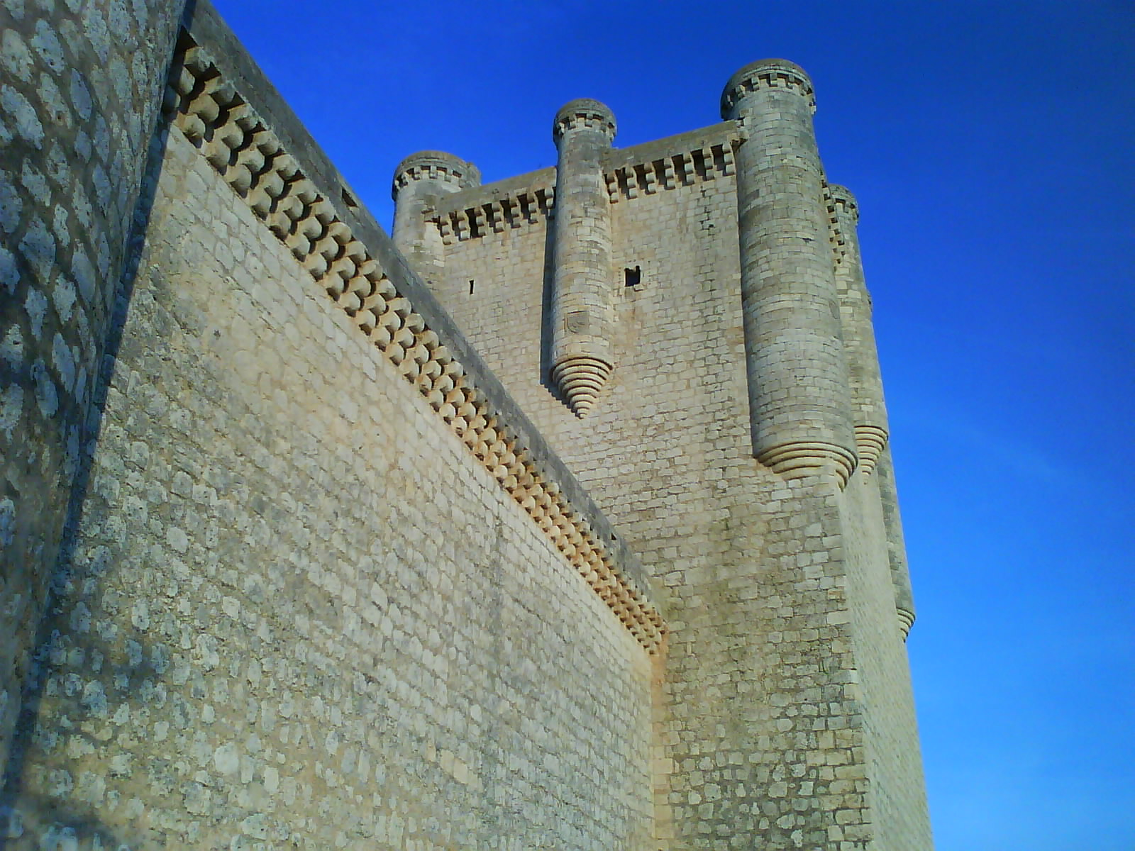 View of the Castle of Torrrelobatón (Province of Valladolid)